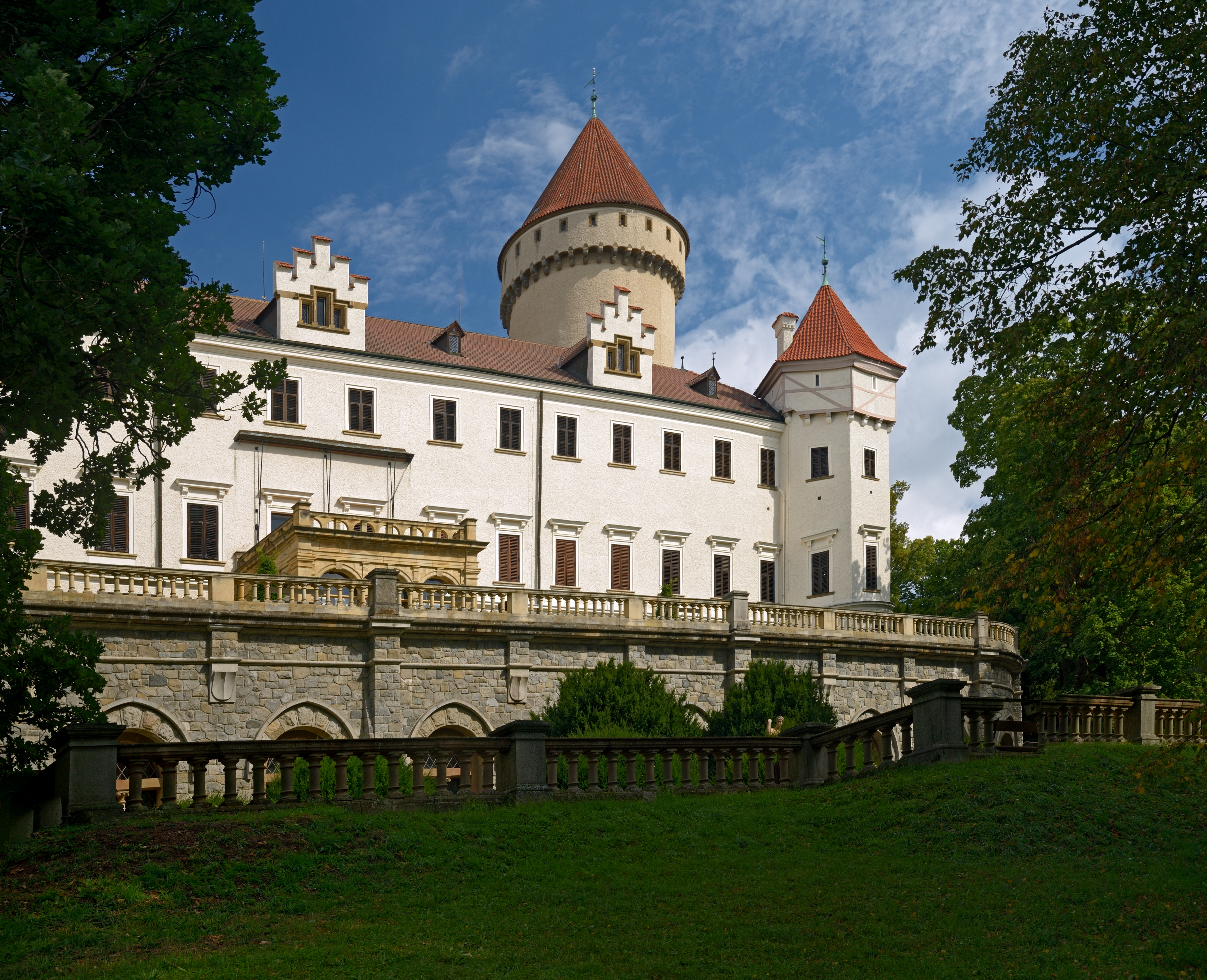 Konopiště château near Benešov, Czech Republic. 2015